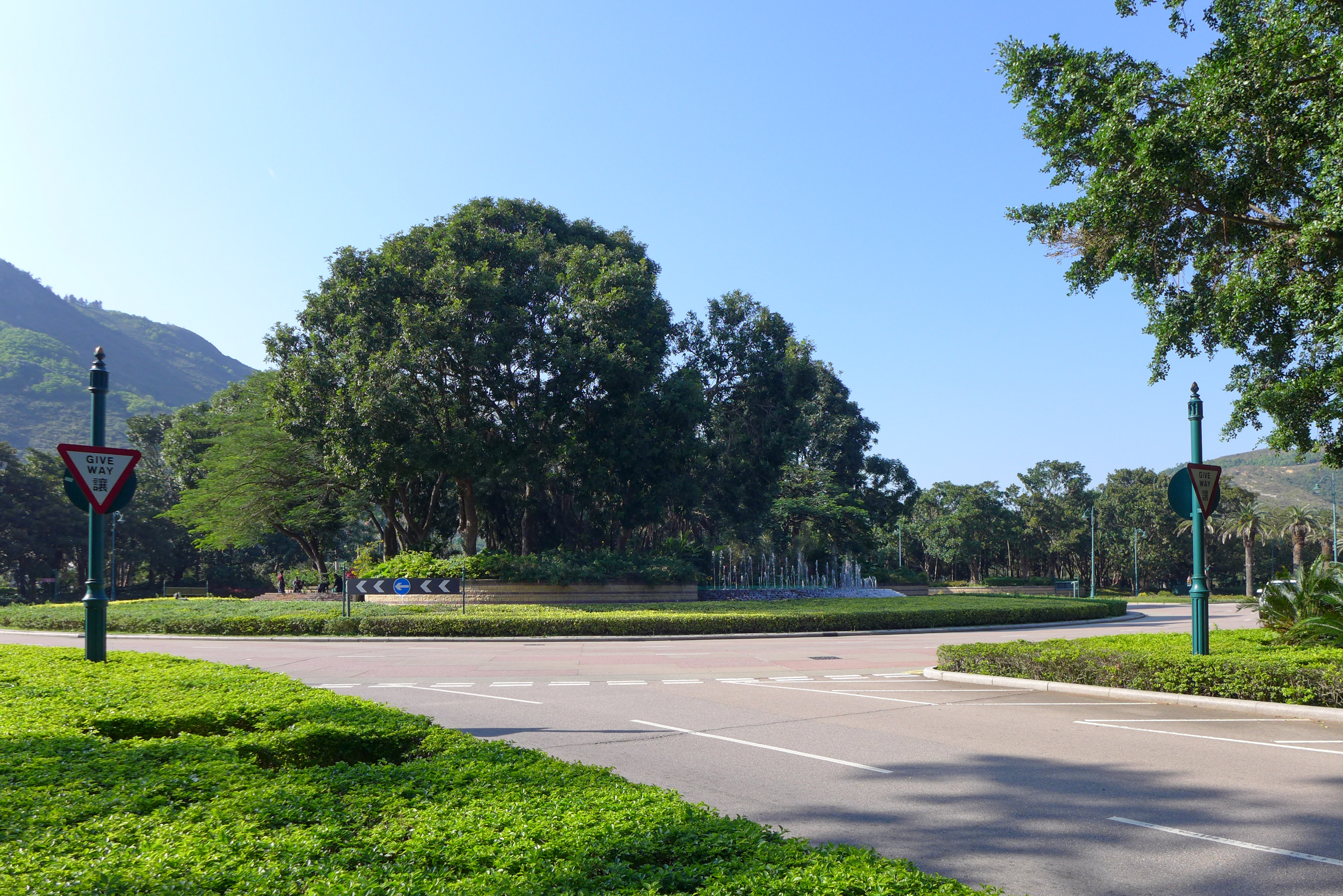 Fantasy Road near Magic Road